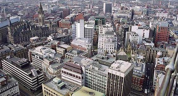 source own